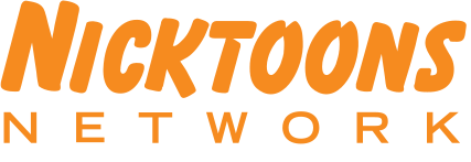 Design of the text for the former and original logo for Nicktoons Network form 2005 to 2009